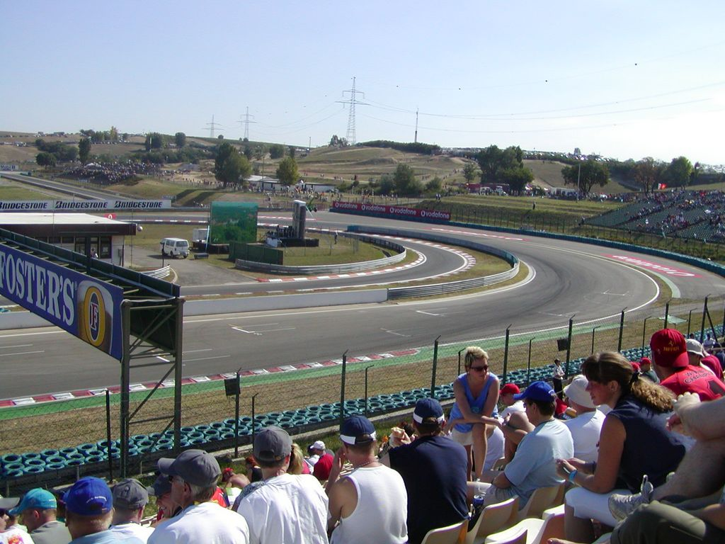 Last corner at the 2003 Hungarian Grand Prix.